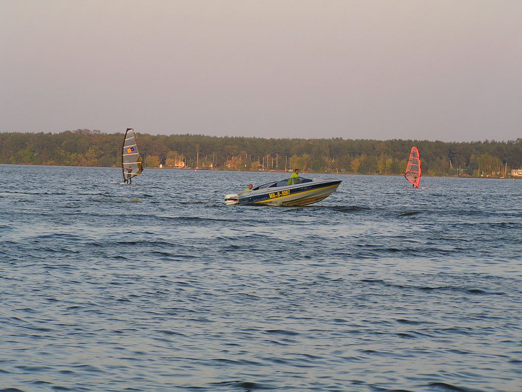 autor: Yarek shalom 08:33, 10 October 2006 (UTC)yarek shalom